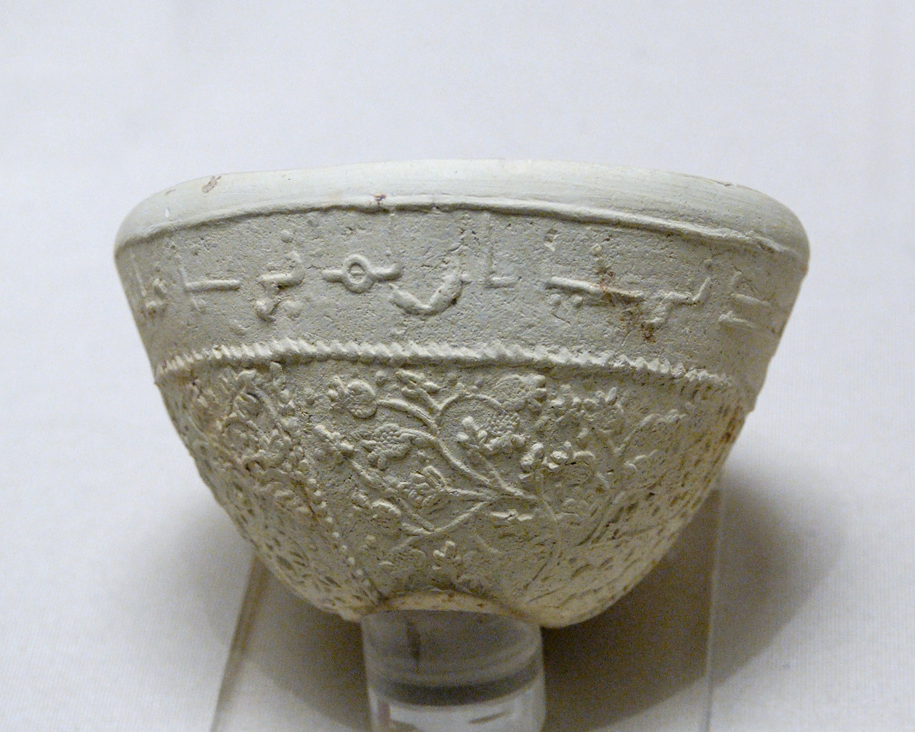 Bowl with vines and pomegranate decoration, and a verse in Arab script.